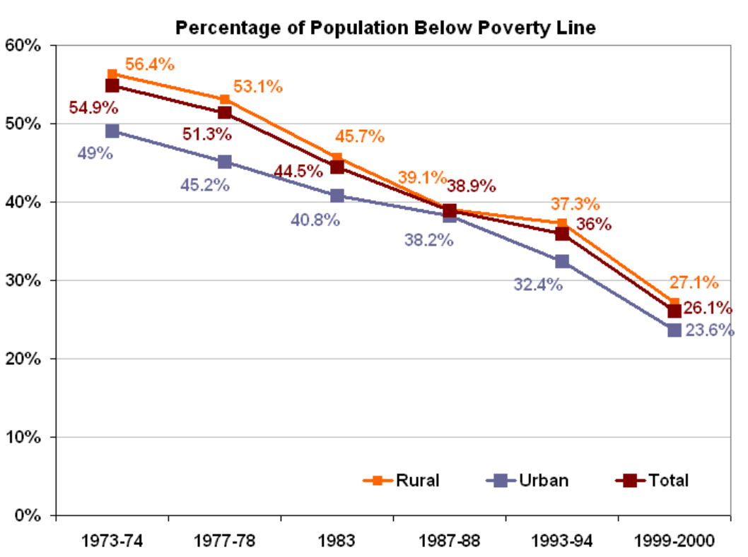 Data Source: Ministry of Statistics and Program Implementation, Government of India. Central Statistical Organization (